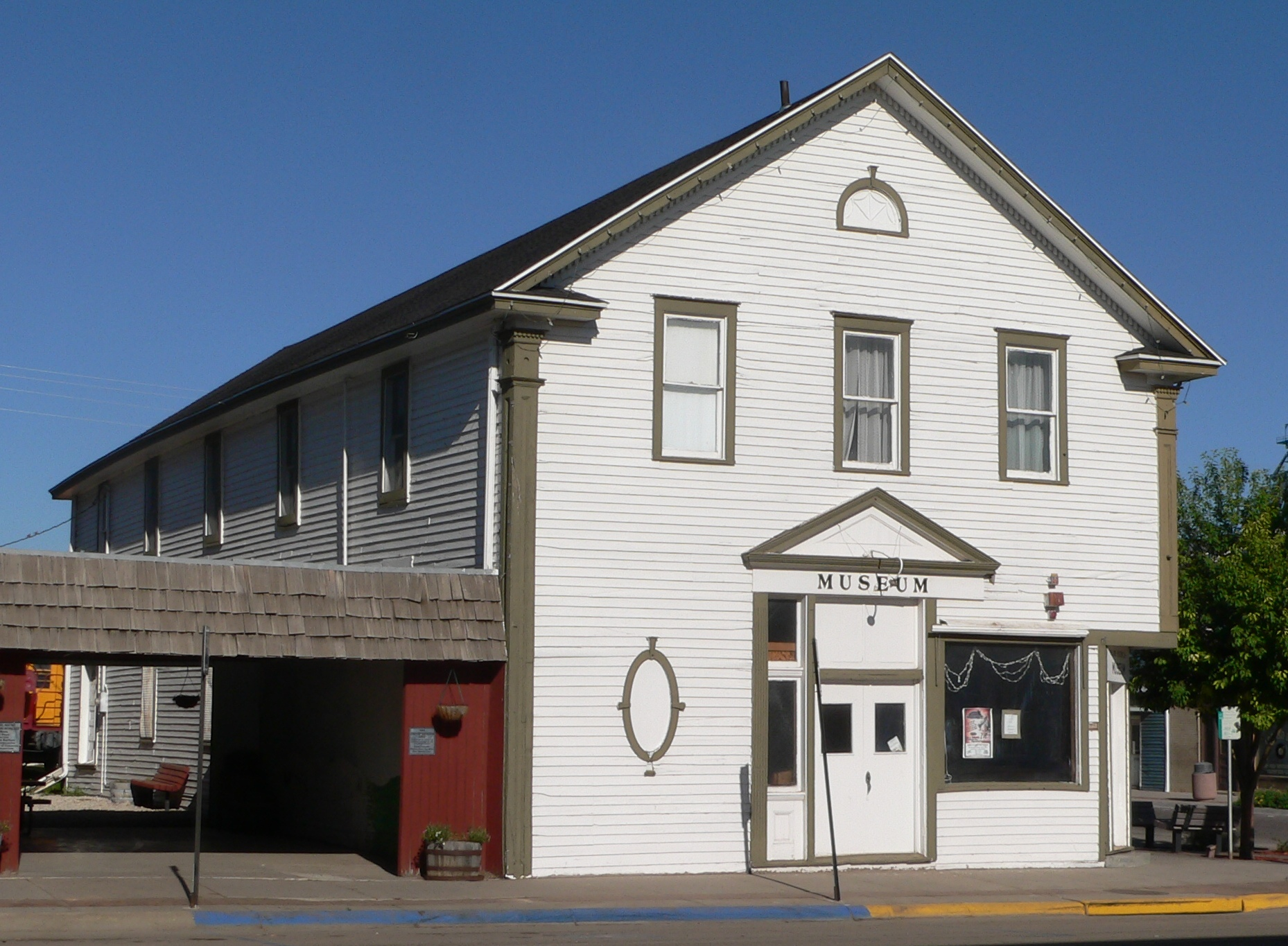 Fraternal Hall at southwest corner of 2nd Street and S. Chestnut Street in Kimball, Nebraska; seen from the southeast. The Classical Revival building was constructed in 1904. It is listed in the National Register of Historic Places. It is now operated as the Plains Historical Museum.